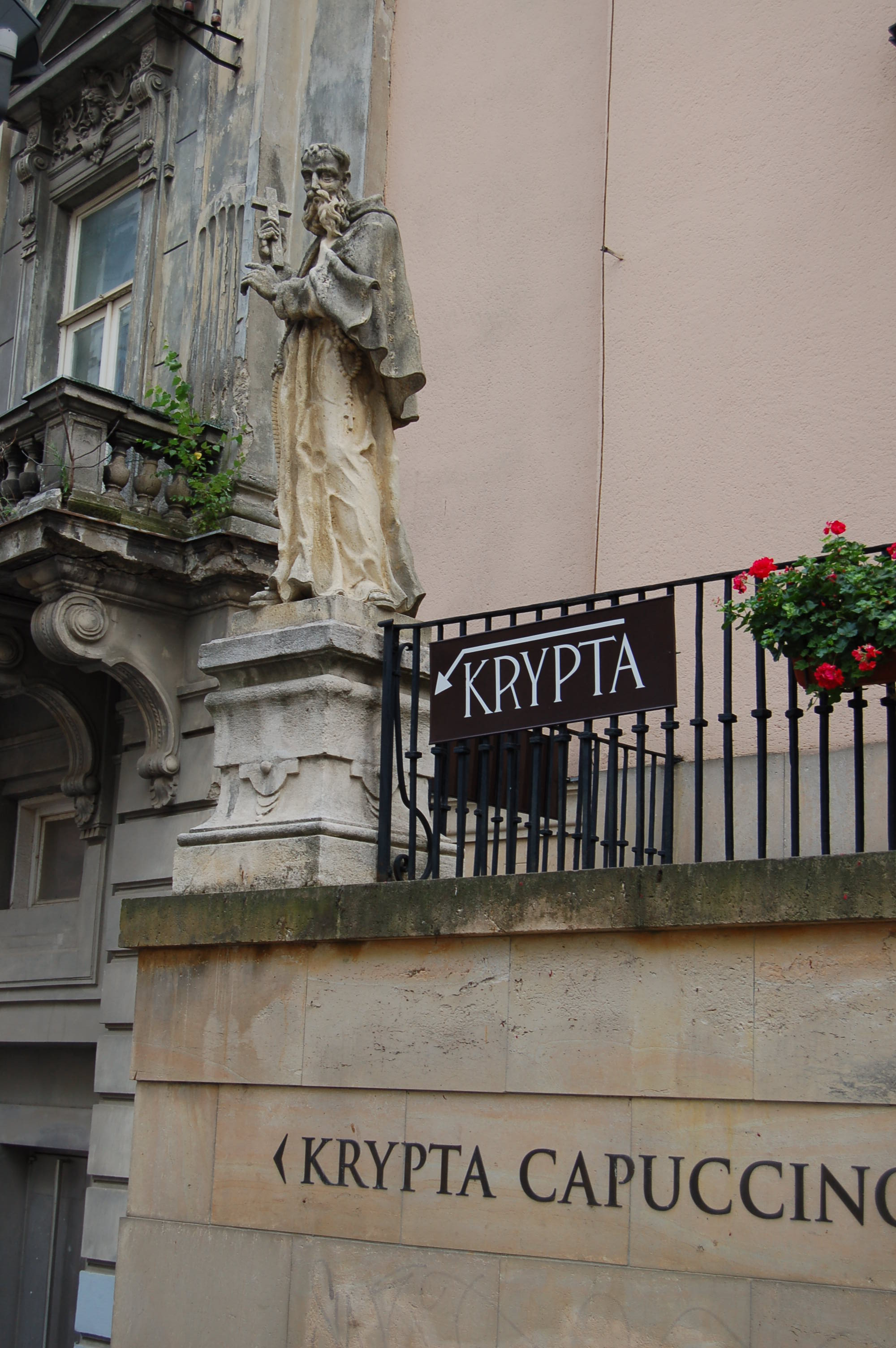 Entrance to the crypt with mummies.